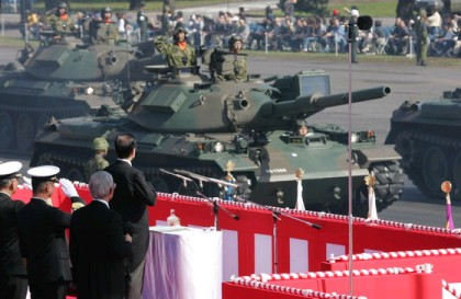 Yasuo Fukuda, Prime Minister, reviewed the Parade of Self-Defense Force at the Camp Asaka, Ground Self-Defense Force in Nerima Ward, Tōkyō Metropolis on October 28, 2007.